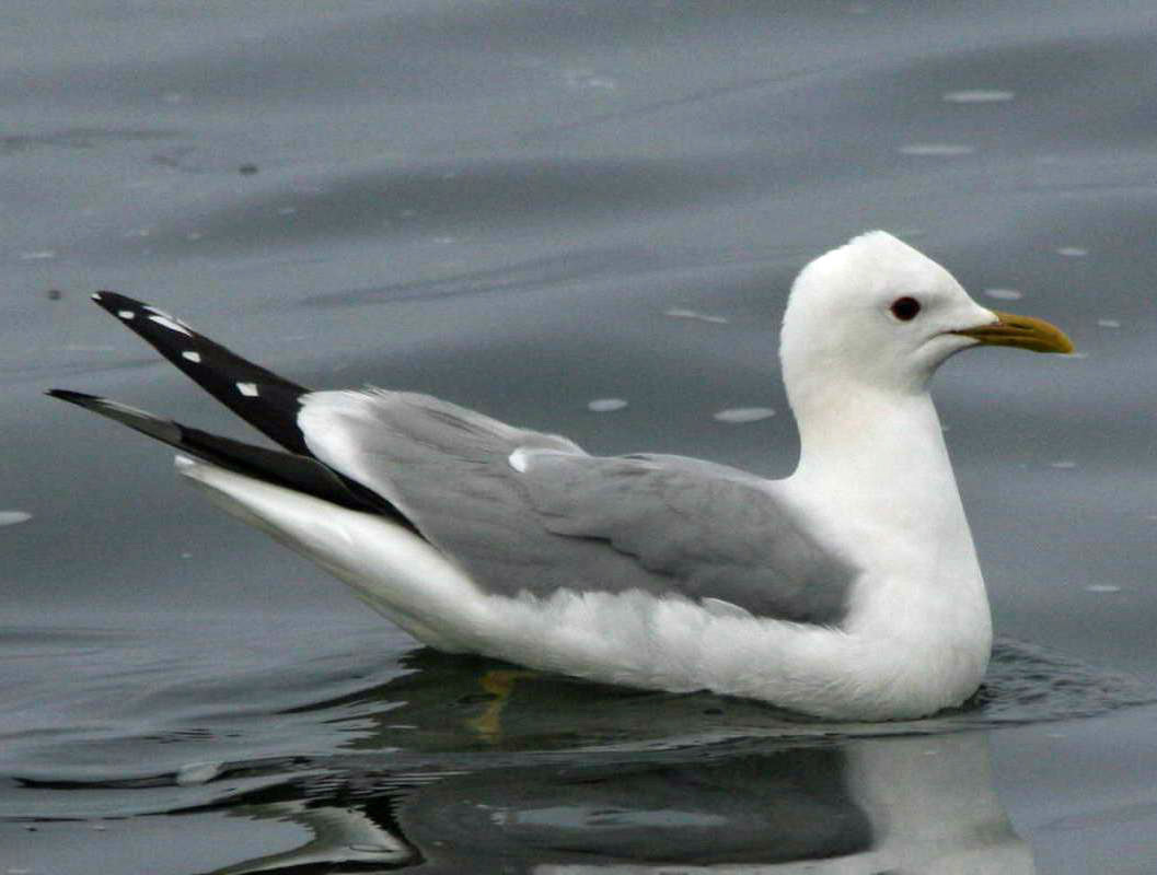 Common Gull (Larus canus canus) - Scotand